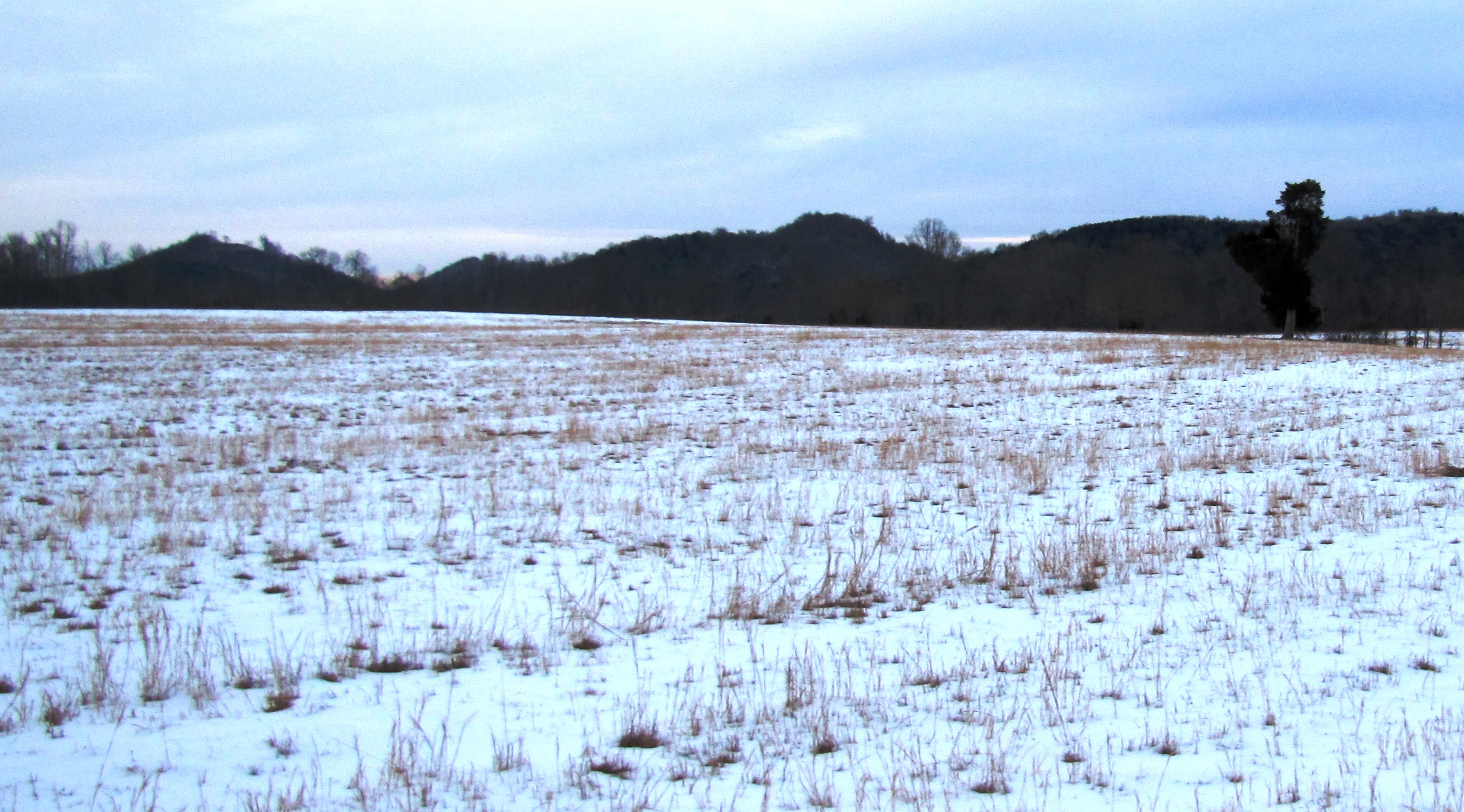 The site of Fort Blount (1794-1798) in Jackson County, Tennessee, USA, looking northeast from Smith's Bend Road. Special thanks to local resident Gene Smith for pointing me to the fort's location.